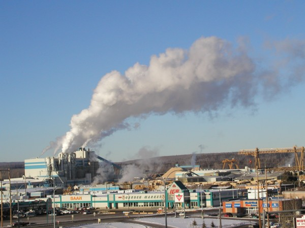 Mill over Whitecourt, AB. Taken December, 2003.